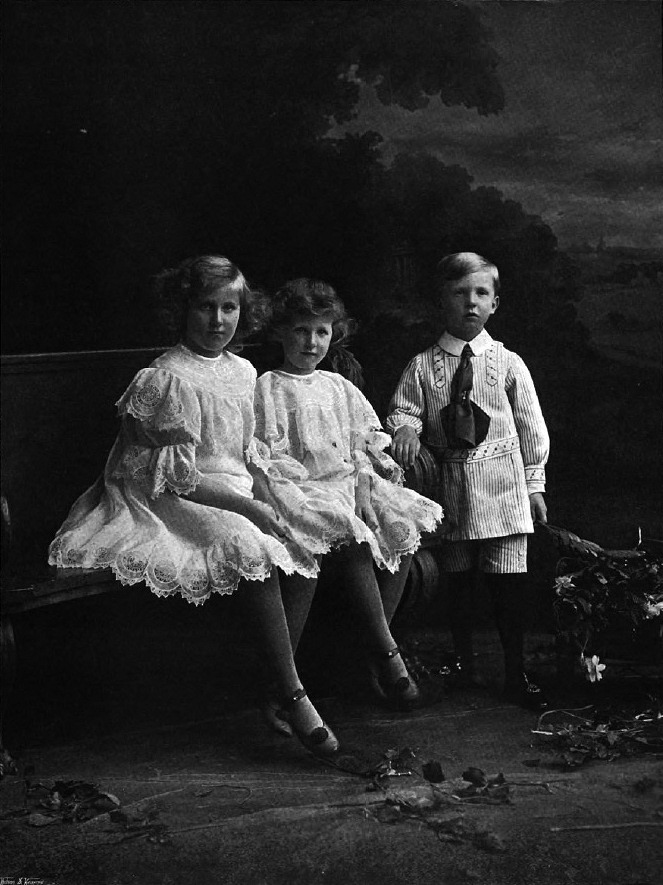 Children of the 9th Duke of Beaufort: Blanche Linnie, Diana Maud Nina and Henry Hugh Arthur FitzRoy Somerset